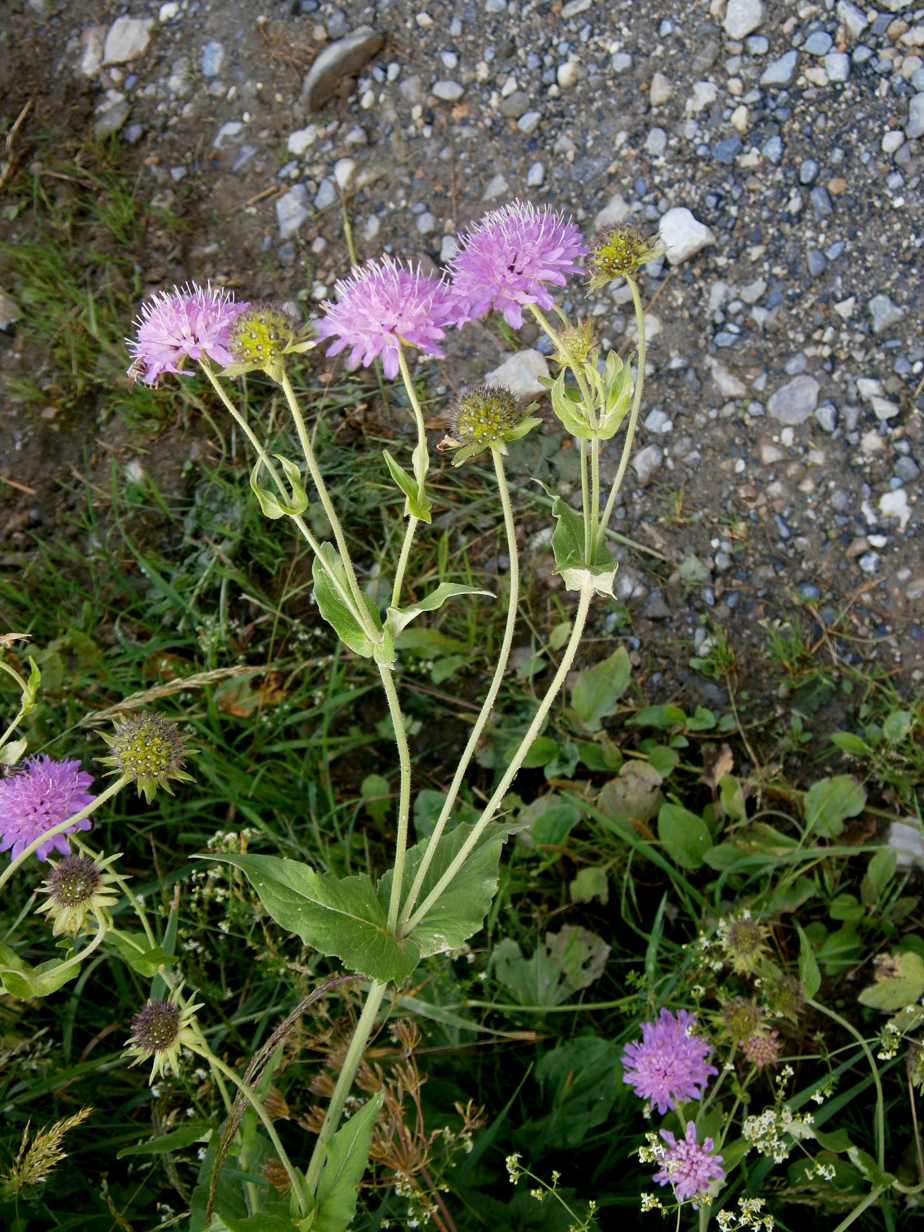 Knautia dipsacifolia